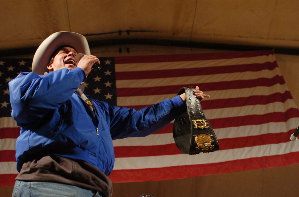 Wrestler John Bradshaw Layfield thanks service members for what they're doing at a concert in Baghdad, Iraq.